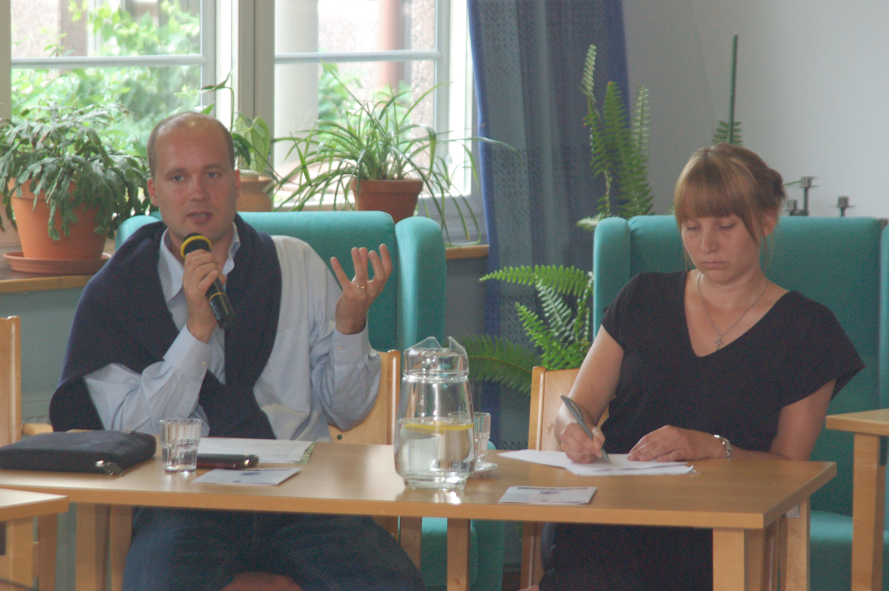 Leader of Finn Church Aid Antti Pentikäinen and Johanna Paananen in Loviisa, Finland